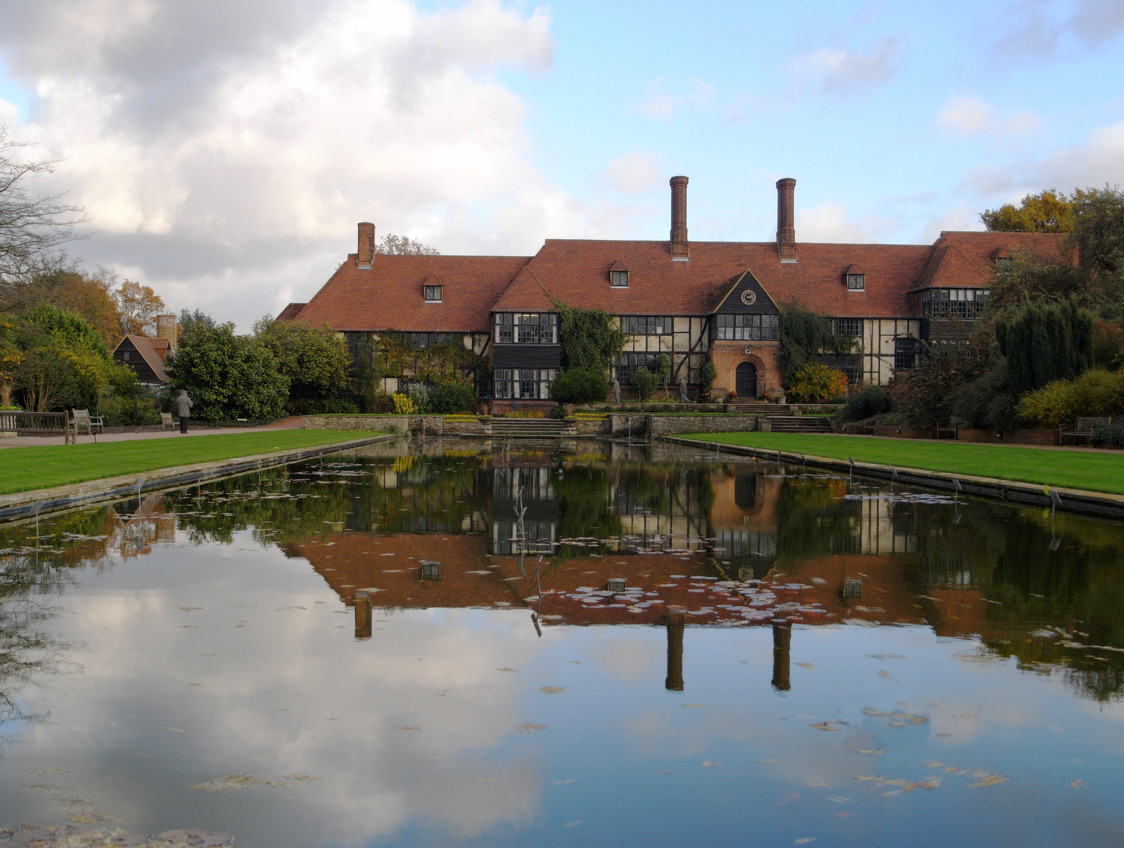 The laboratory building at the Royal Horticultural Society's Wisley Gardens, England, with the canal in the foreground.